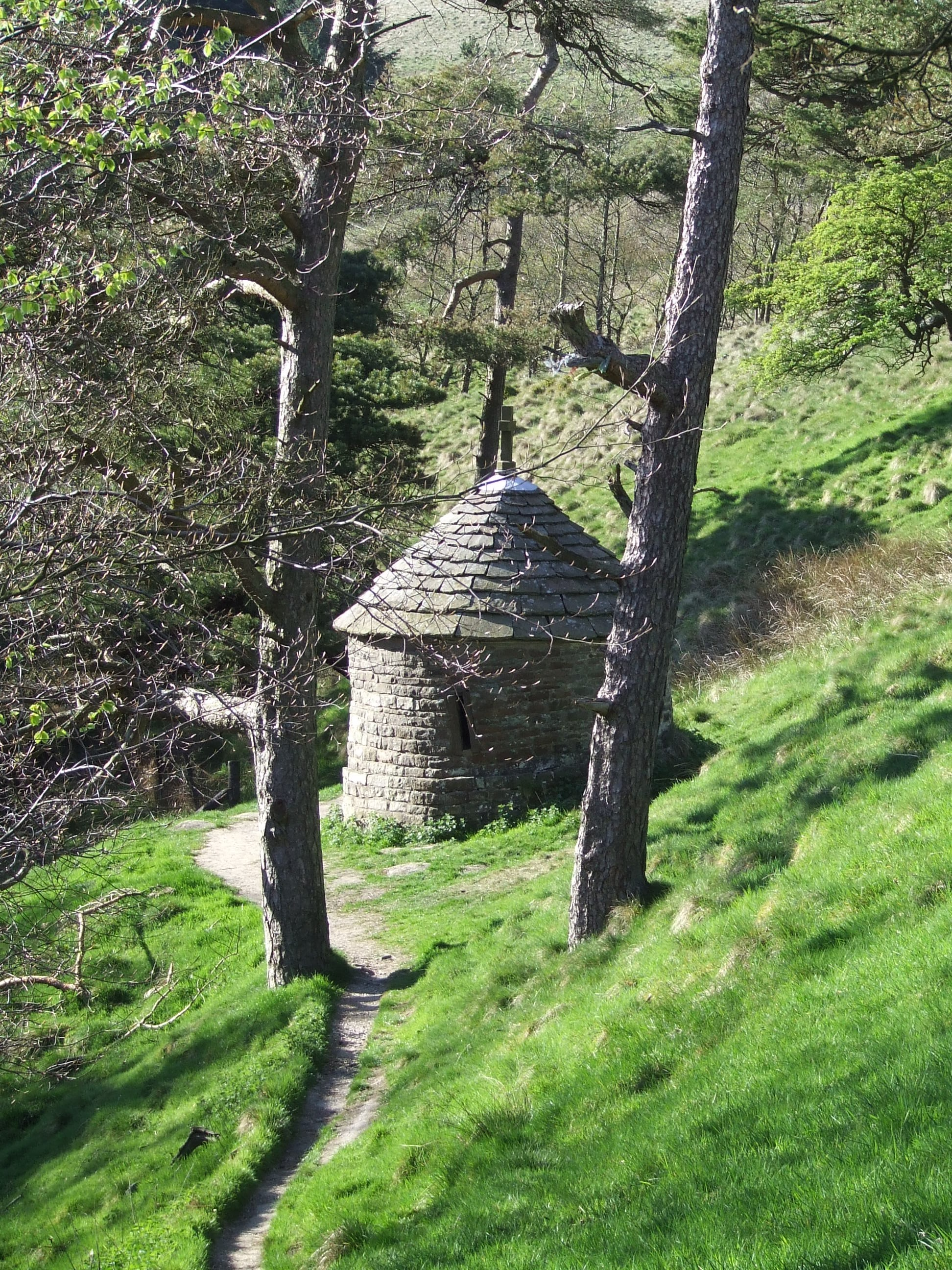 Spanish Shrine north of the ruin of Errwood Hall, near Hartington, Derbyshire